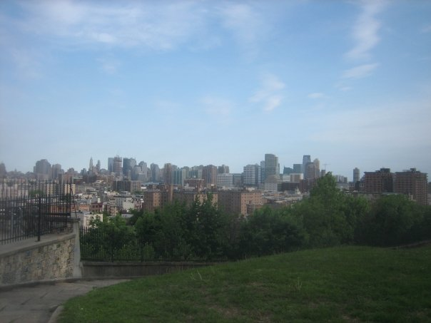 Riverview-Fiske Park, Hudson Pallisaides